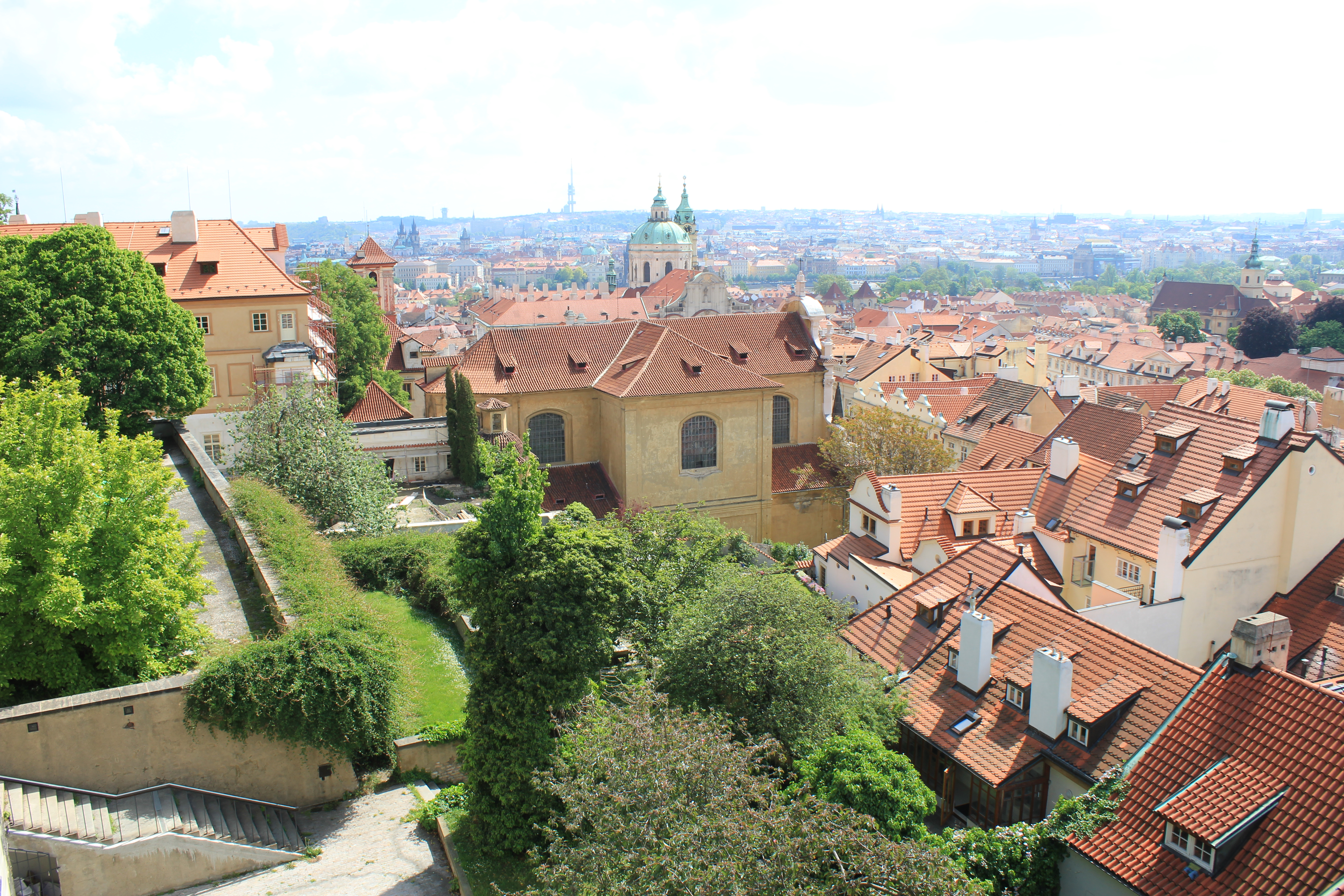 View from Prague Castle.